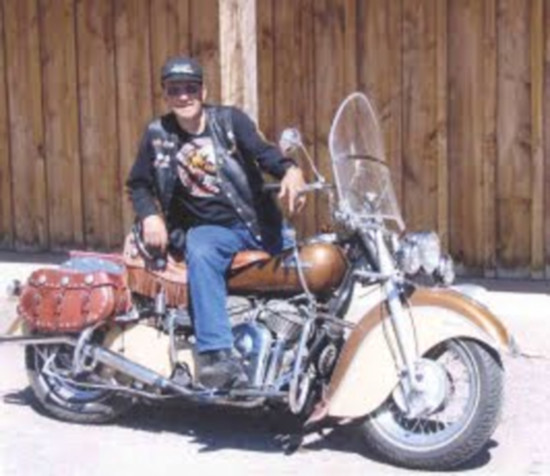 Indian Ed Spilker is one of the original Jackpine gypsies and one of the co-founders of the Sturgis Motorcycle Rally. He is seen here on his 1948 Indian motorcycle that is as famous as he is.